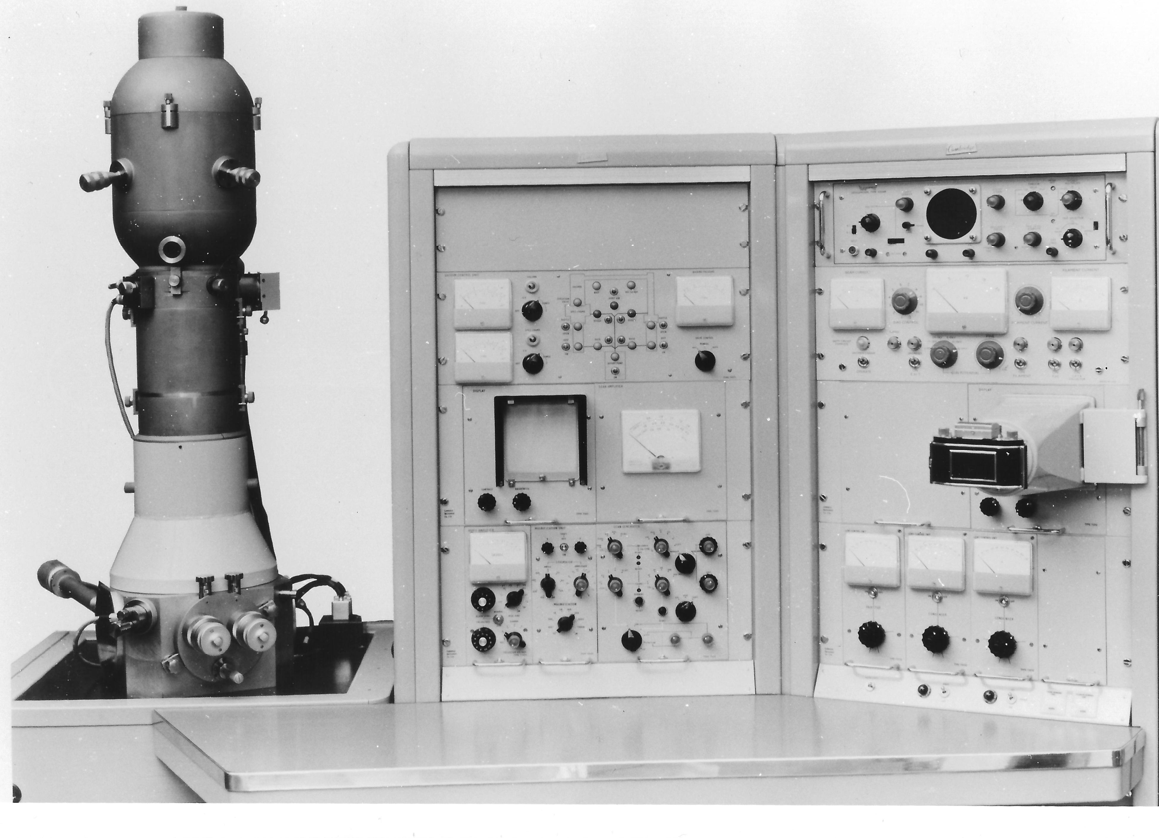 In 2015 ZEISS proudly celebrates the 50th anniversary of commercial scanning electron microscopy (SEM). In 1965 the first commercial SEM was built by the Cambridge Instrument Company, a UK based predecessor company of ZEISS Microscopy. Five decades after the launch of the Stereoscan, the ‘industrial gene pool’ of this globally successful technology is evident in a broad range of industry leading SEMs from ZEISS, many of which are still manufactured in Cambridge. Read more in our blog article: Images donated as part of a GLAM collaboration with Carl Zeiss Microscopy - please contact Andy Mabbett for details.